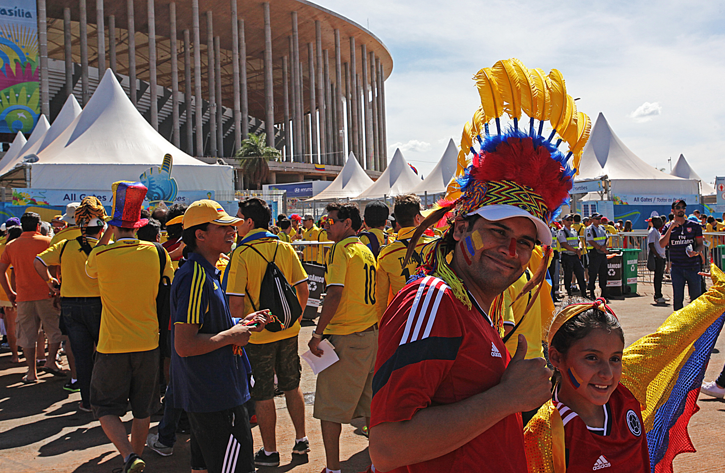 Colombia and Ivory Coast match at the FIFA World Cup 2014-06-19